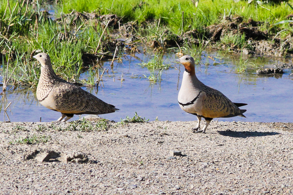 Pterocles orientalis (Charyn river, Kazakhstan).